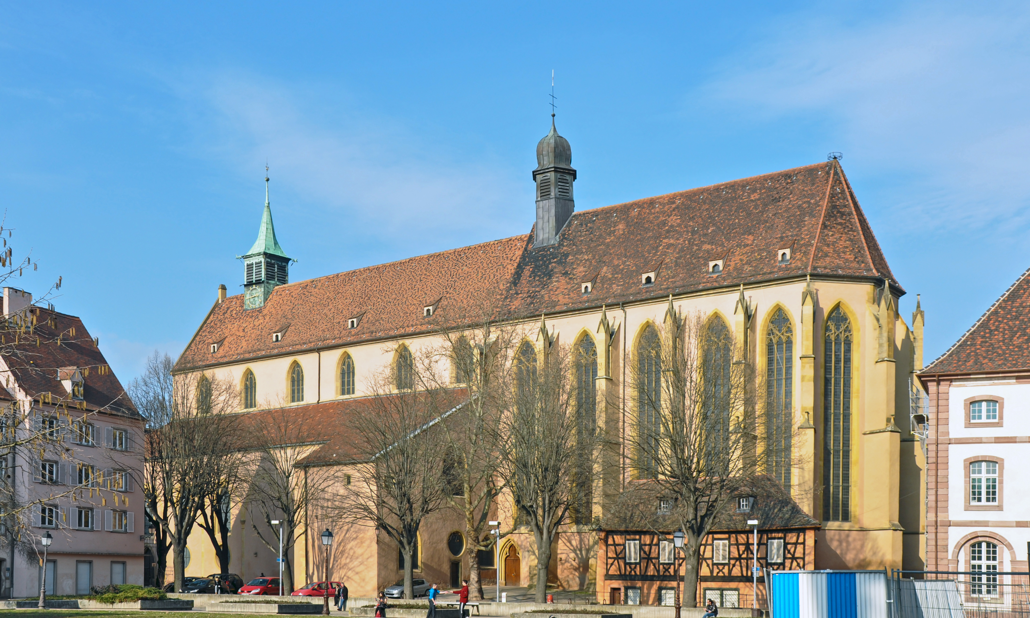 St-Matthieu's Church in Grand'Rue in Colmar (Haut-Rhin, France). .